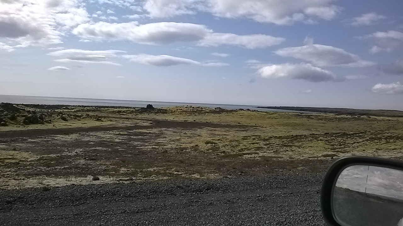 Reykjanes, Iceland